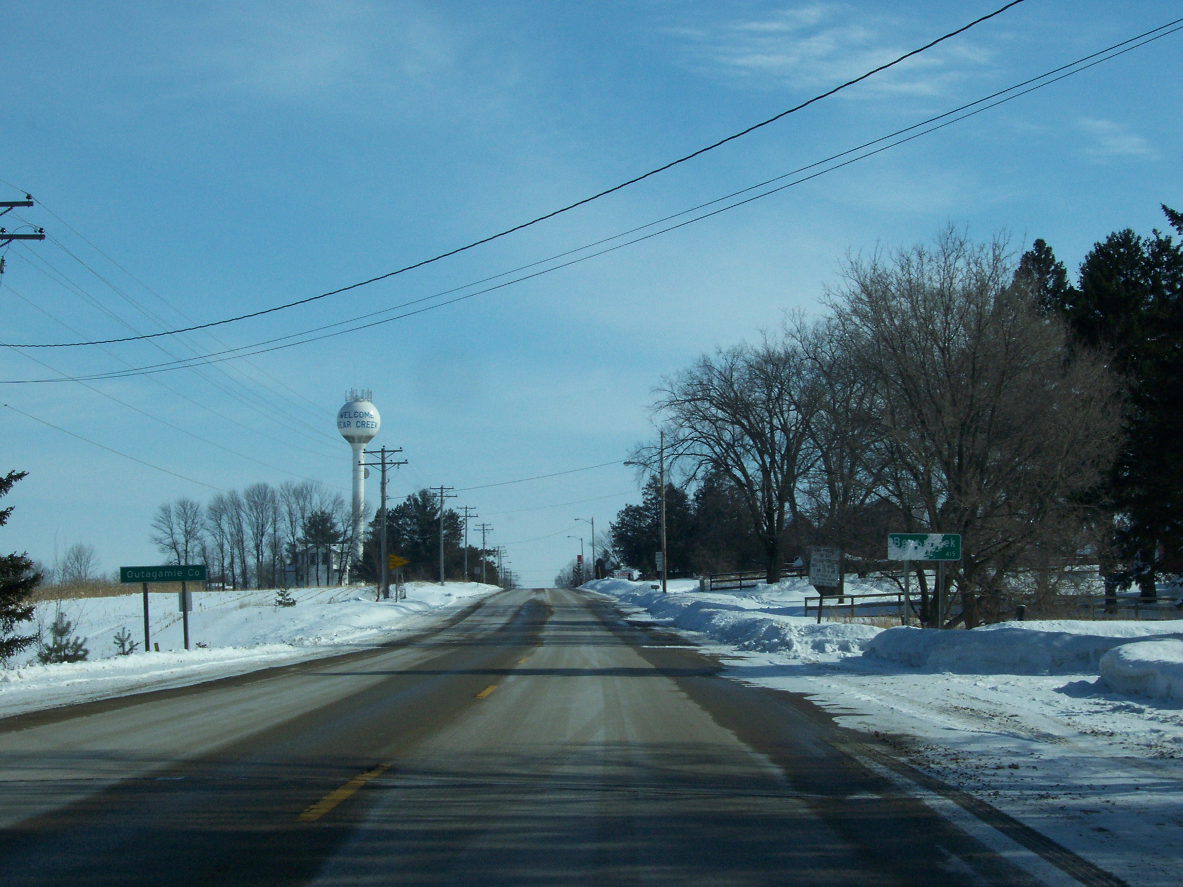 Looking east at the sign for the village of Bear Creek, Outagamie County, Wisconsin - right at the Outagamie County line. Taken while traveling east on Wisconsin Highway 76.